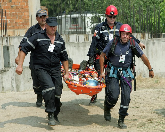 Drill of the Bulgarian Cervice for Civil Protection.